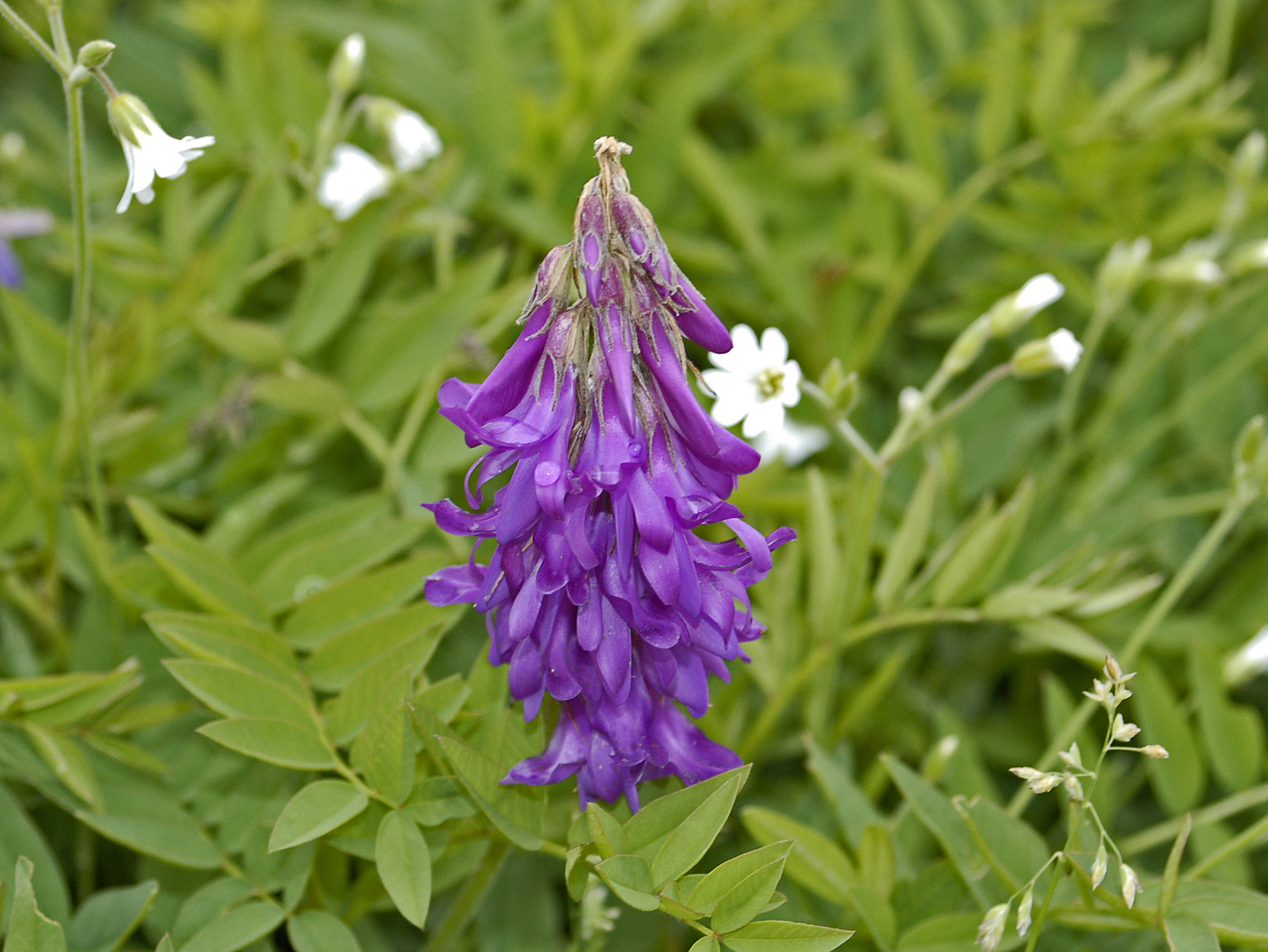 Flowers of Hedysarum hedysaroides subsp. hedysaroides at the Giardino Botanico Alpino Chanousia